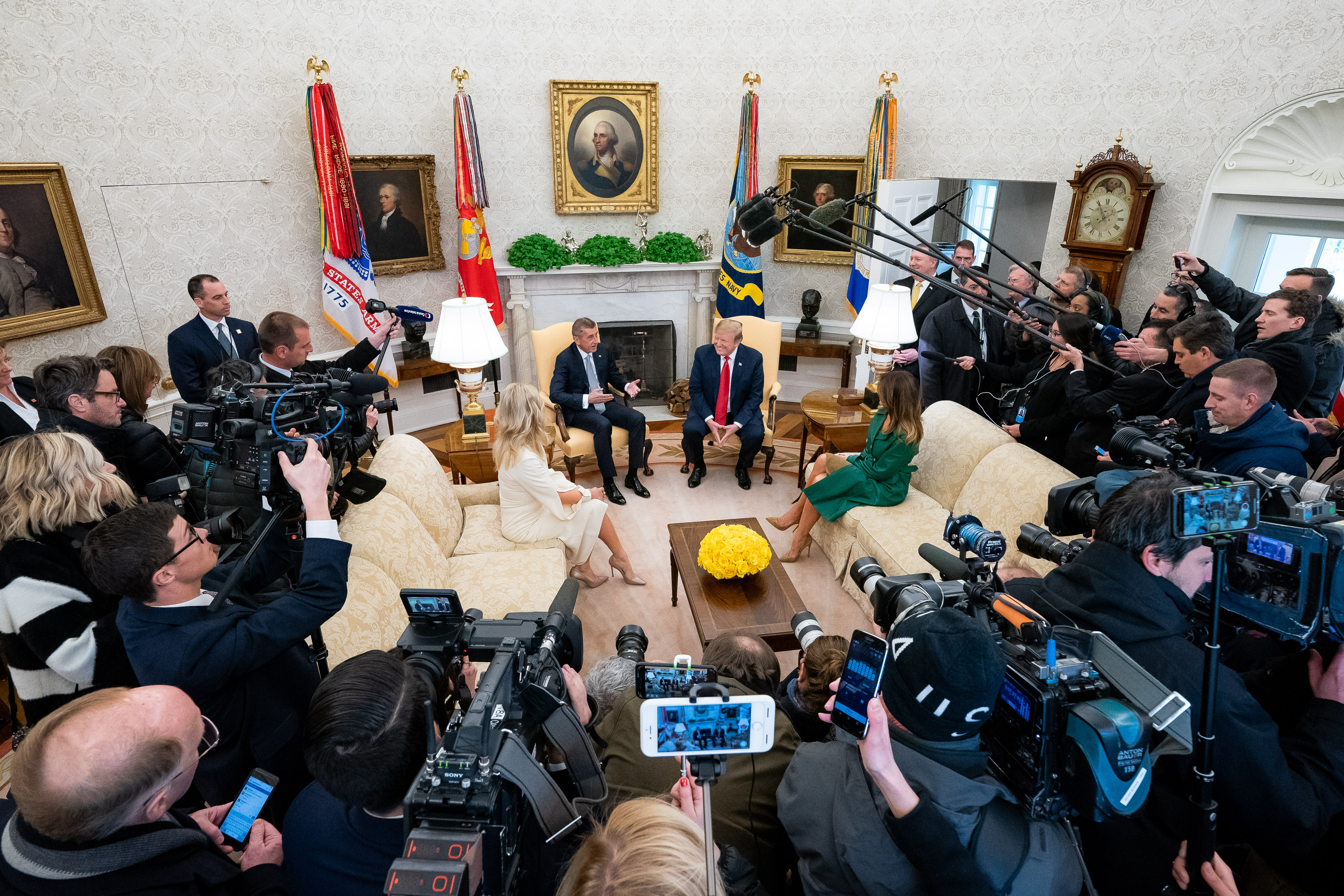 President Donald J. Trump and First Lady Melania Trump welcome the Prime Minister of the Czech Republic and Mrs. Monika Babišová to the White House, Thursday March 7, 2019 (Official White House Photo by Tia Dufour)